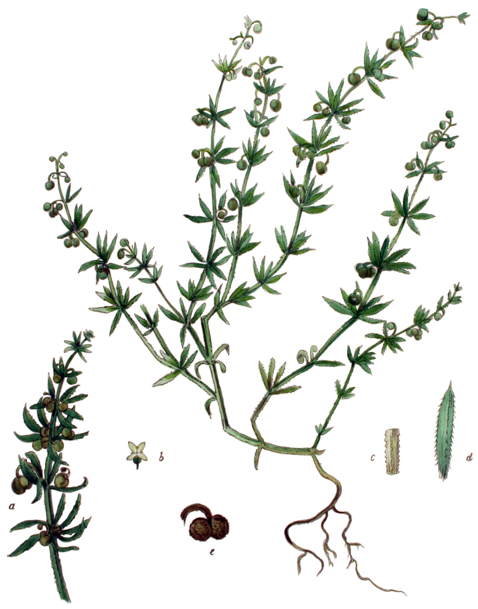 Galium tricornutum Dandy (original caption reads "Galium Tricorne With. 1442.")